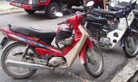 Picture of Kapcai (Cub or small motorcycle) - SnatchThieves004.jpg